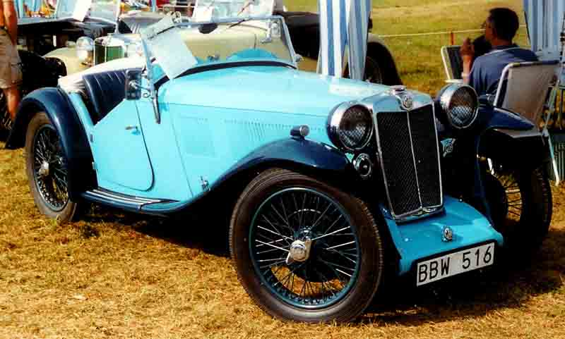 M.G. L2 Magna 2-Seater Sports 1933